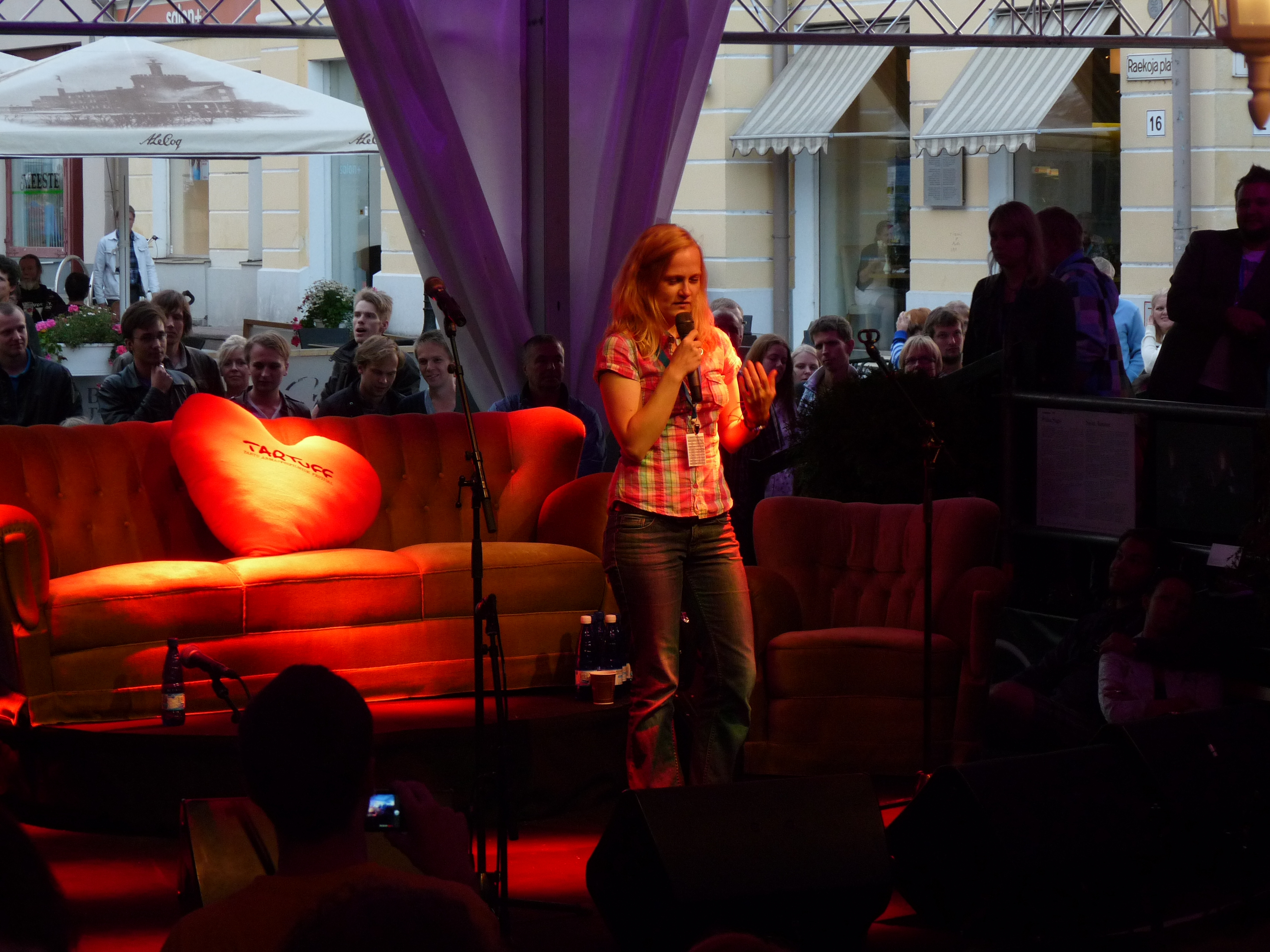 Estonian stand-up comedian Keiu Kriit performing on the film festival tARTuFF in Tartu, on Raekoja plats, on August 9, 2012. Photo: User:Oop.